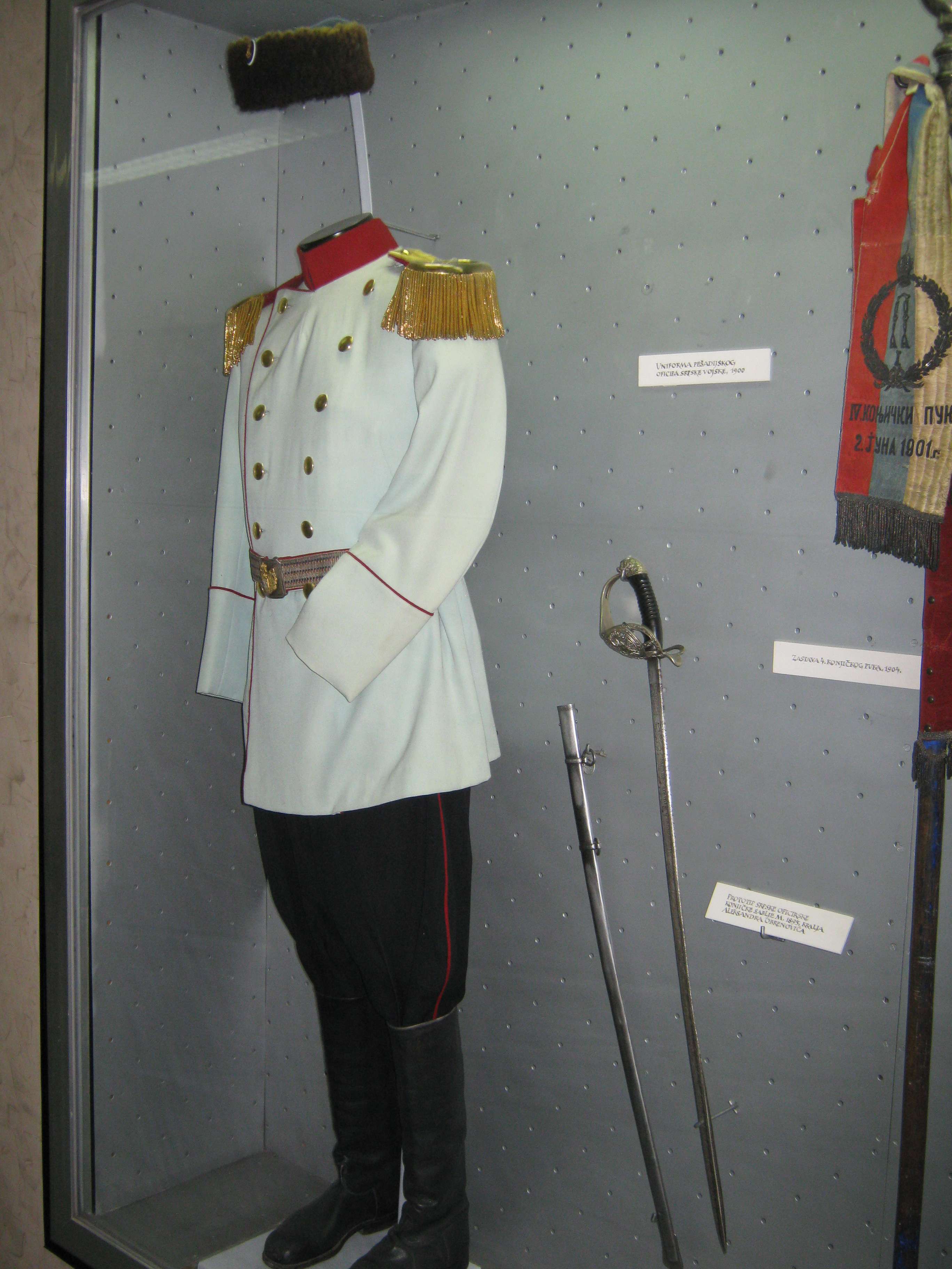 Uniform of Serbain Infantry Officer from 1900. Photo taken in:Military museum Belgrade